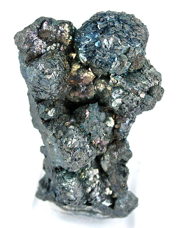 Miargyrite Locality: San Genaro Mine, Castrovirreyna District, Castrovirreyna Province, Huancavelica Department, Peru (Locality at ) Size: small cabinet, 6.1 x 4.2 x 2.7 cm Miargyrite Exceptionally attractive, thick rosettes of iridescent miargyrite, to 2.0 cm across, abound on this specimen. Miargyrite is a rare silver sulfo-salt and this specimen represents the very best of the species from this locality and they are also considered among the best ever found for the species. This piece was part of the rarities suite of Marty Zinn, from his collection which sold in 2004. It is one of the few pieces from this find i would class as "display quality" and not just "representative" of species and place.